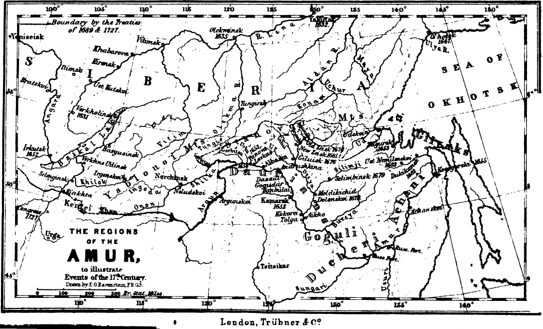 "The Regions of the Amur, to illustrate events of the 17th century".